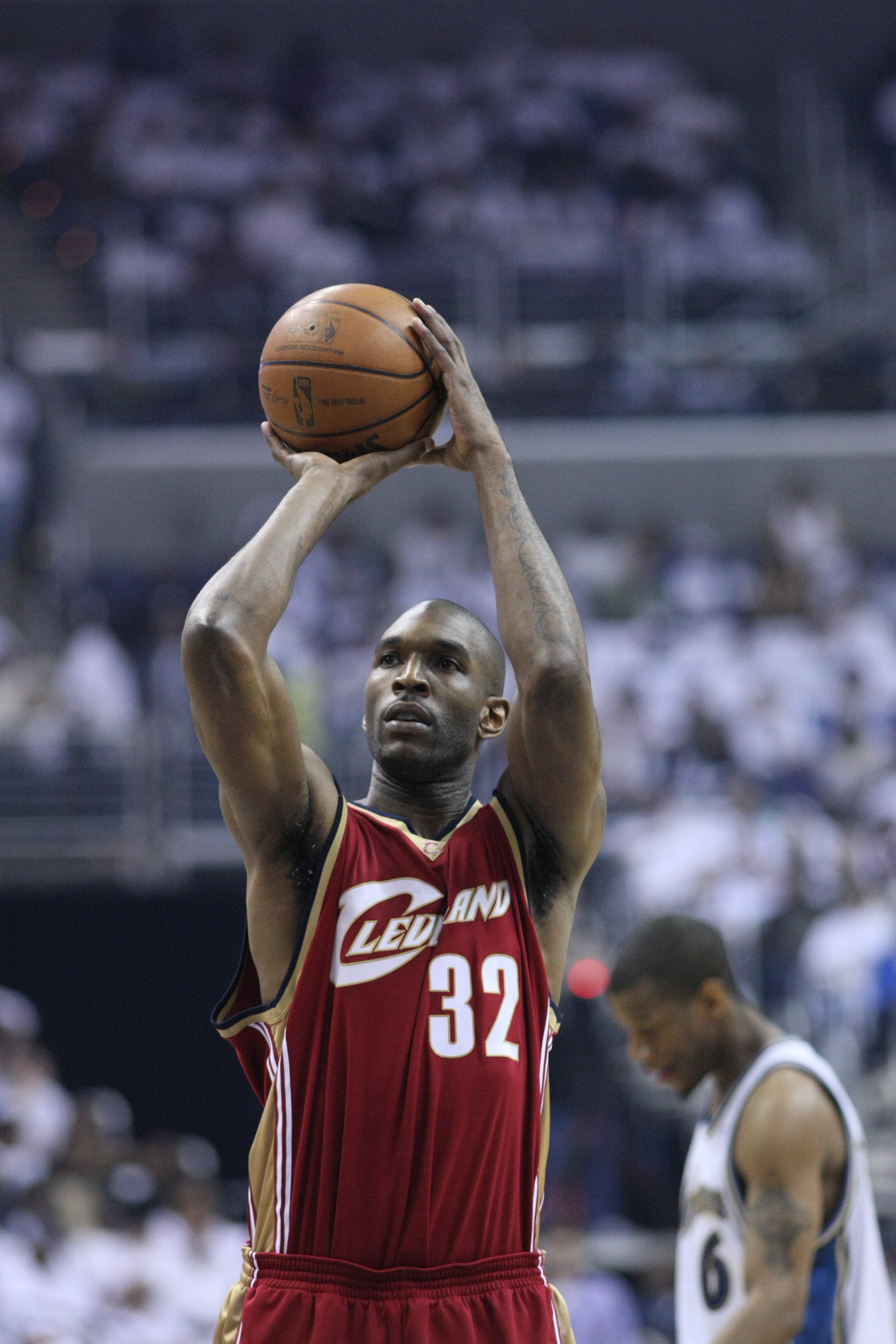 Joe Smith